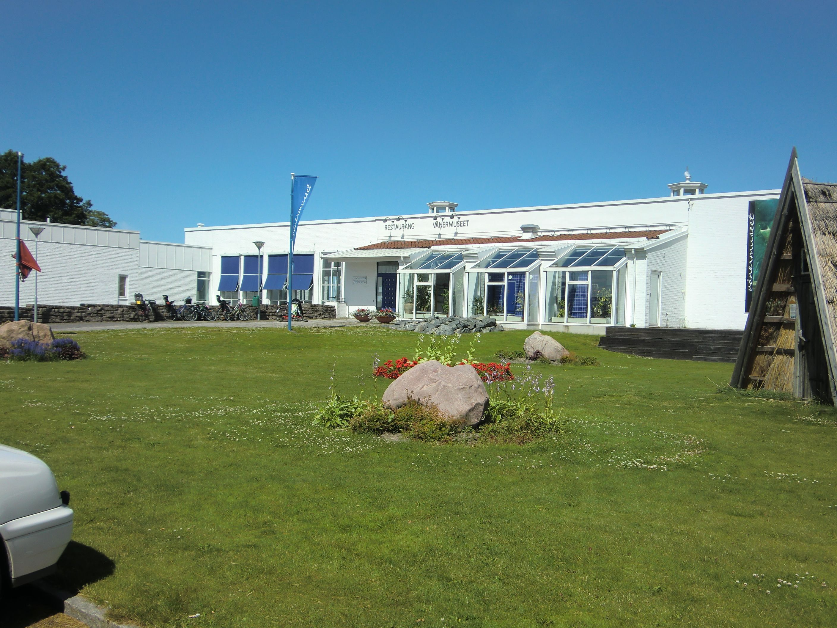 The Lake Vänern Museum in Lidköping, Västergötland, Västra Götaland County, Sweden